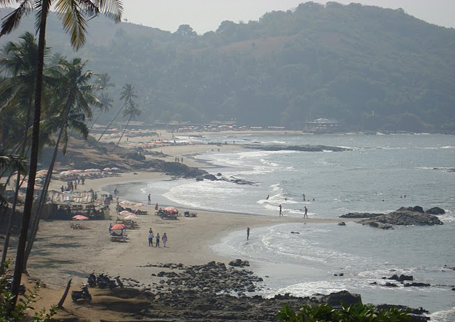 Vagatore beach, Goa